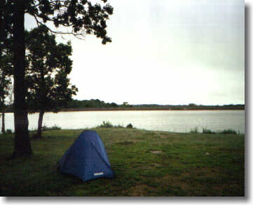 The shore & lake at Crawford State Park.